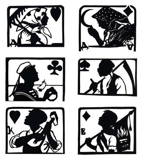 silhouette cards